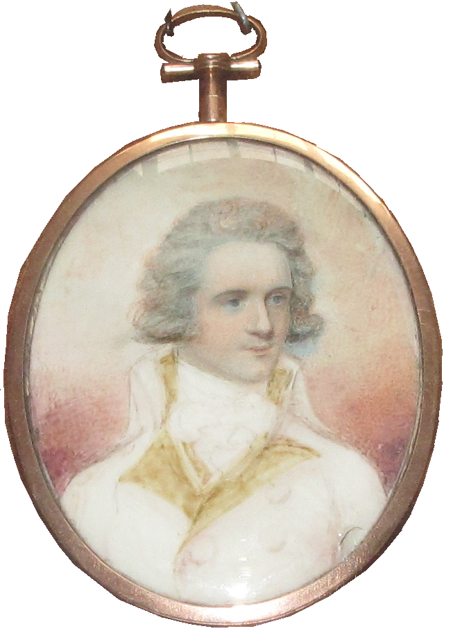 Samuel E. Marshall, captain on the Russian frigate Saint Nicolai which was sunk at the Battle of Svensksund in 1790. Probably painted by Henry Eldridge. On the back it says: "S E Marshall Aged 24 Captain in the Russian Navy who in the Engagement with the Swedes on the 10 July 1790 having with unparallelled valor fought for 17 Hours & received many wounds wrapt himself up in the Colors of his Ship when sinking & perished with her in the Waves"